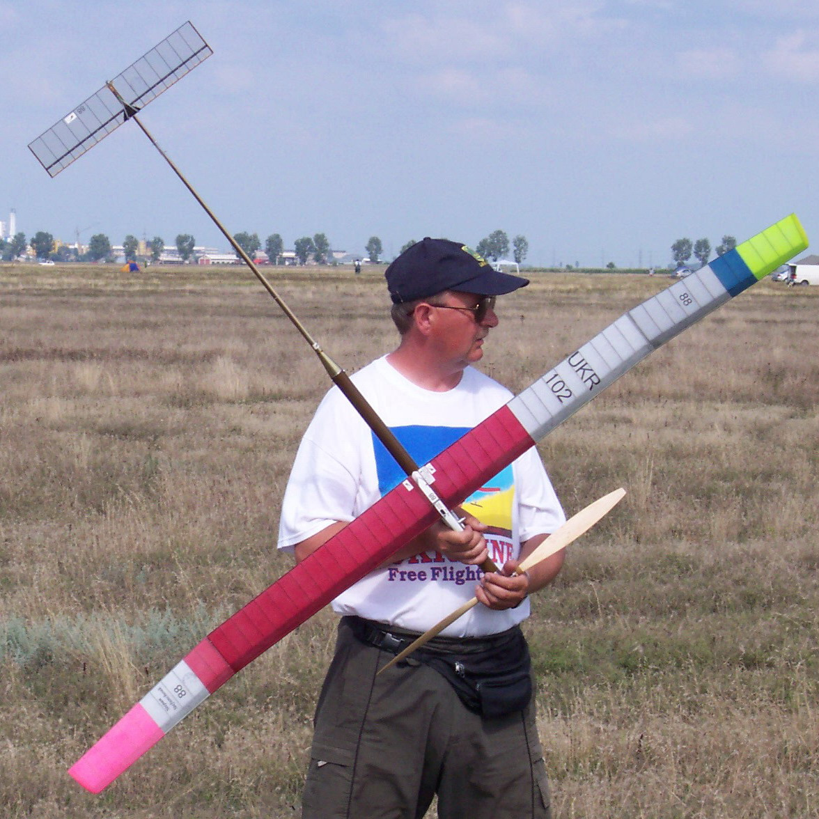 Euro Champ 2004 Buzau Romania Model by Stepan STEPANCHUK (WC)